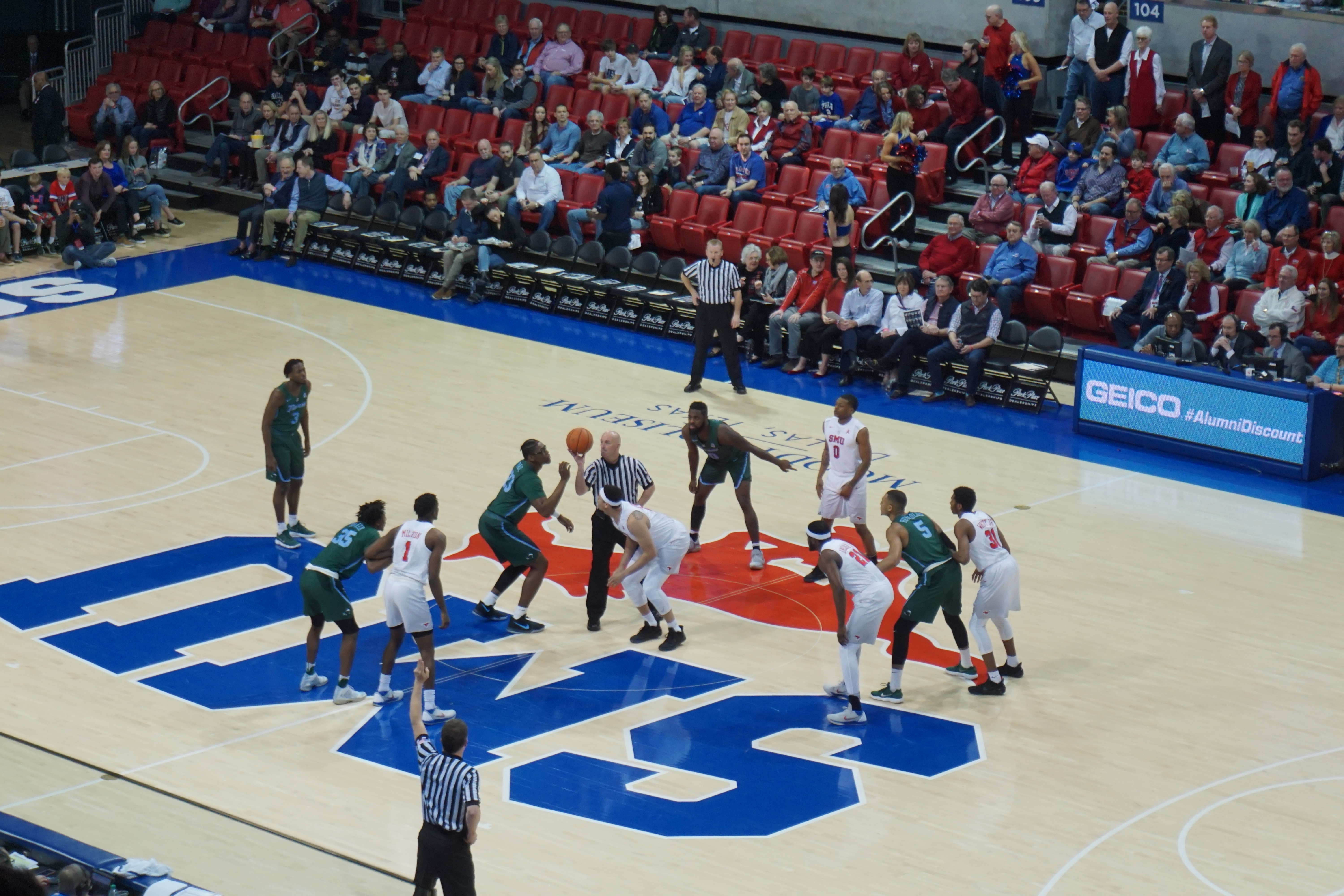 In-game action during the Tulane Green Wave vs. Southern Methodist Mustangs men's basketball game at Moody Coliseum in University Park, Texas (United States). Southern Methodist won 73–62.